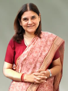 Maneka Gandhi at Trailer launch of 'It's Entertainment'